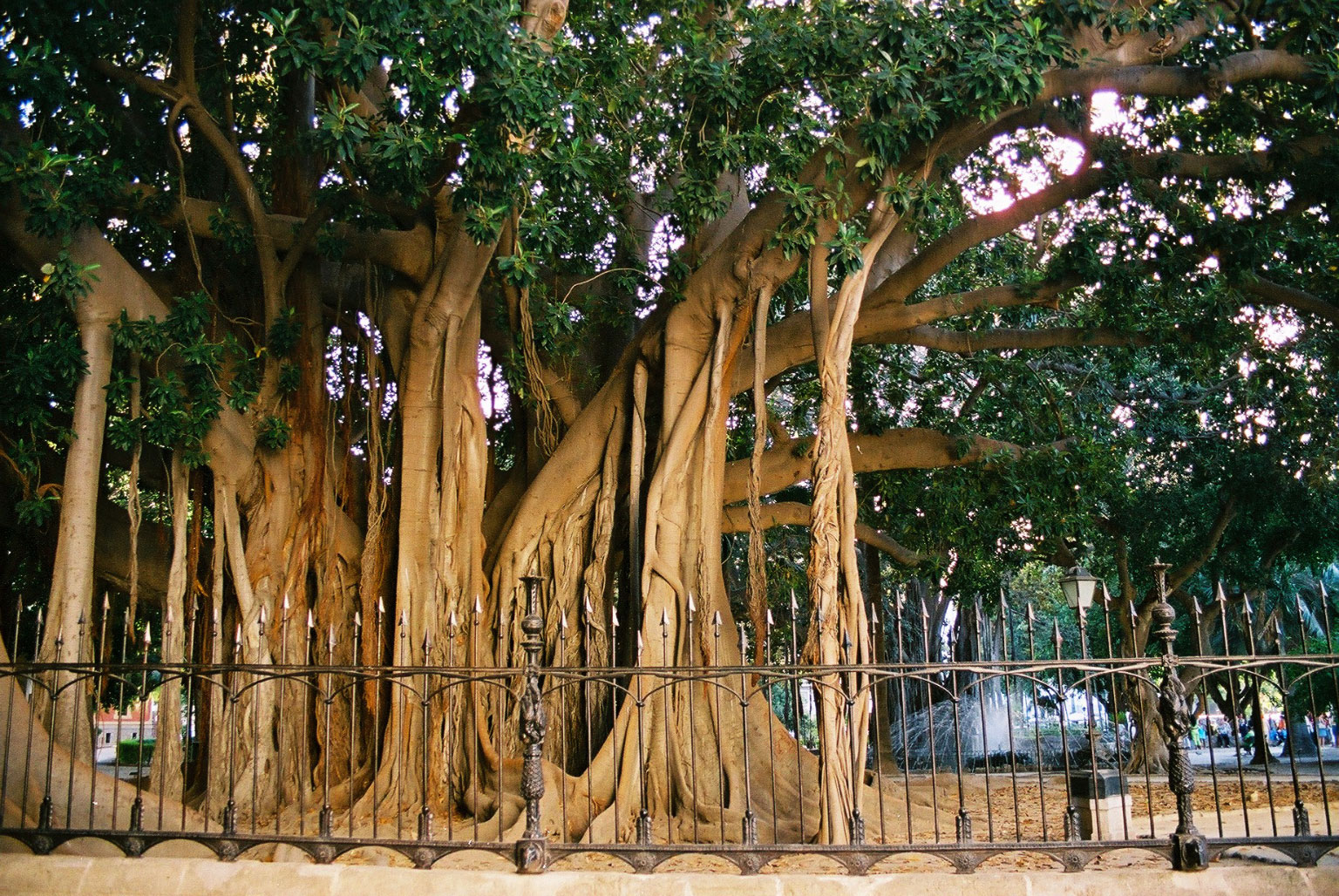 Villa Garibaldi on Piazza Marina, Palermo Moreton Bay Fig (Ficus macrophylla), one of the largest of these trees in Italy